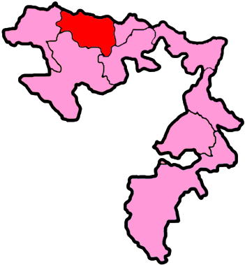 The second electoral unit of Republika Srpska (NSRS) shown within Bosnia and Herzegovina.